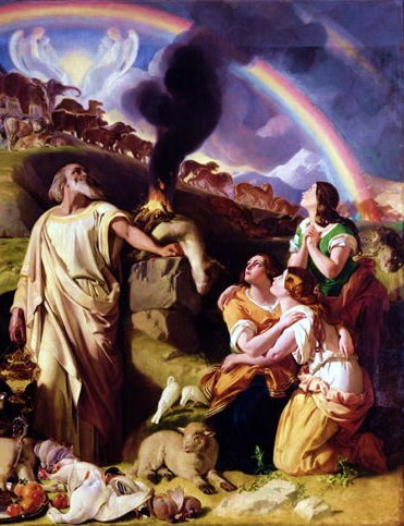 Noah's sacrifice